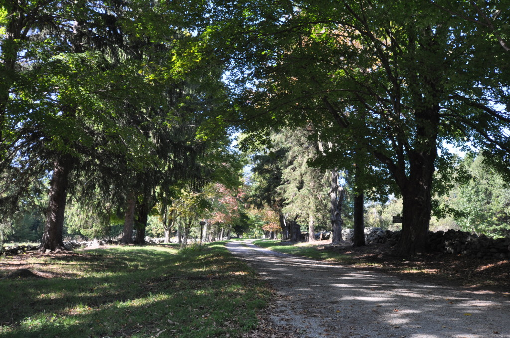 Hervey Brooks Pottery Shop and Kiln Site, Goshen, Connecticut. The actual site is a short way down the lane and to the left.